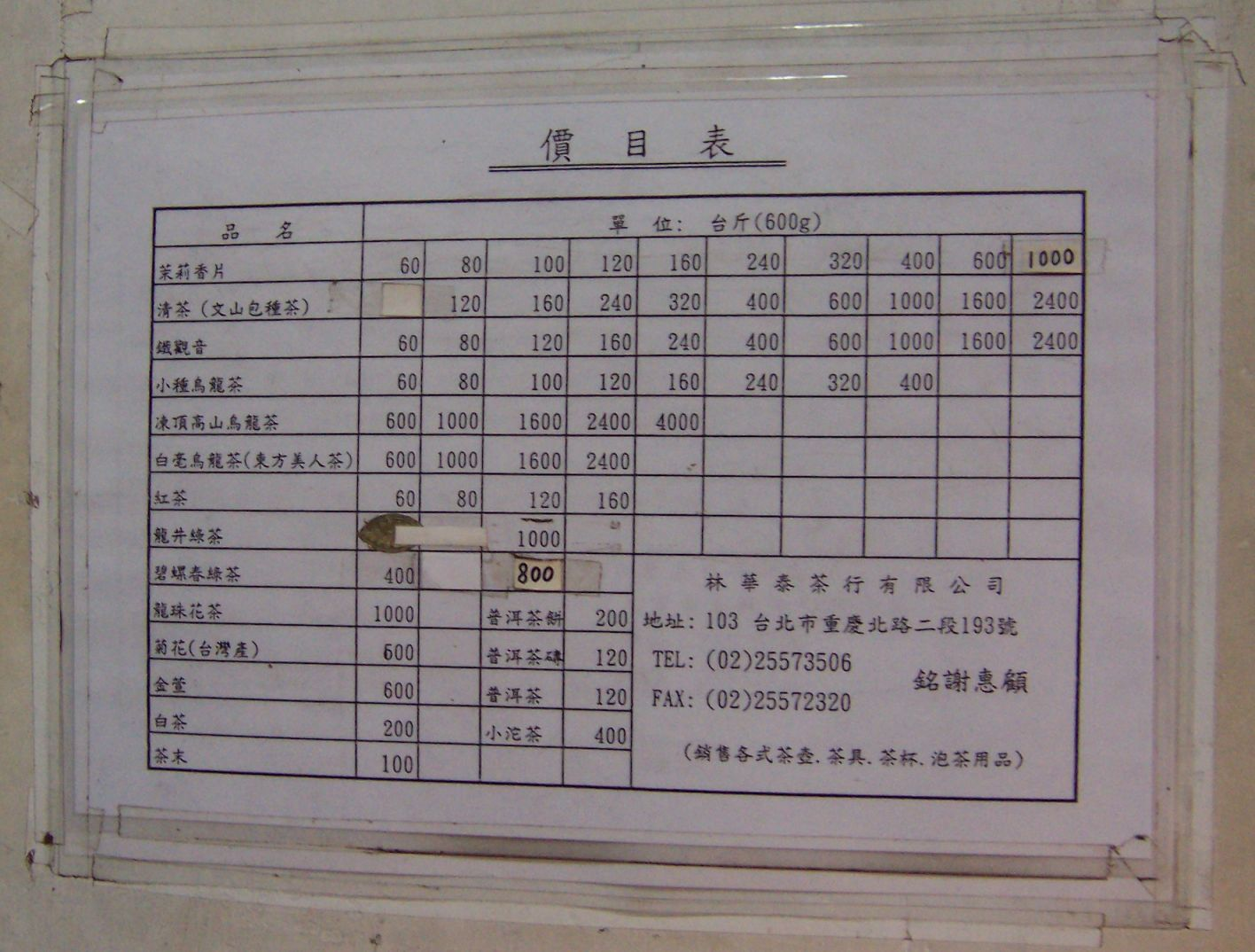 Tea pricelist at Lin Hua Tai Tea Company (林華泰茶行有限公司) in Chongqing Road, Dadaocheng, Taipei, Taiwan. Prices in NT$ per catty (600g).